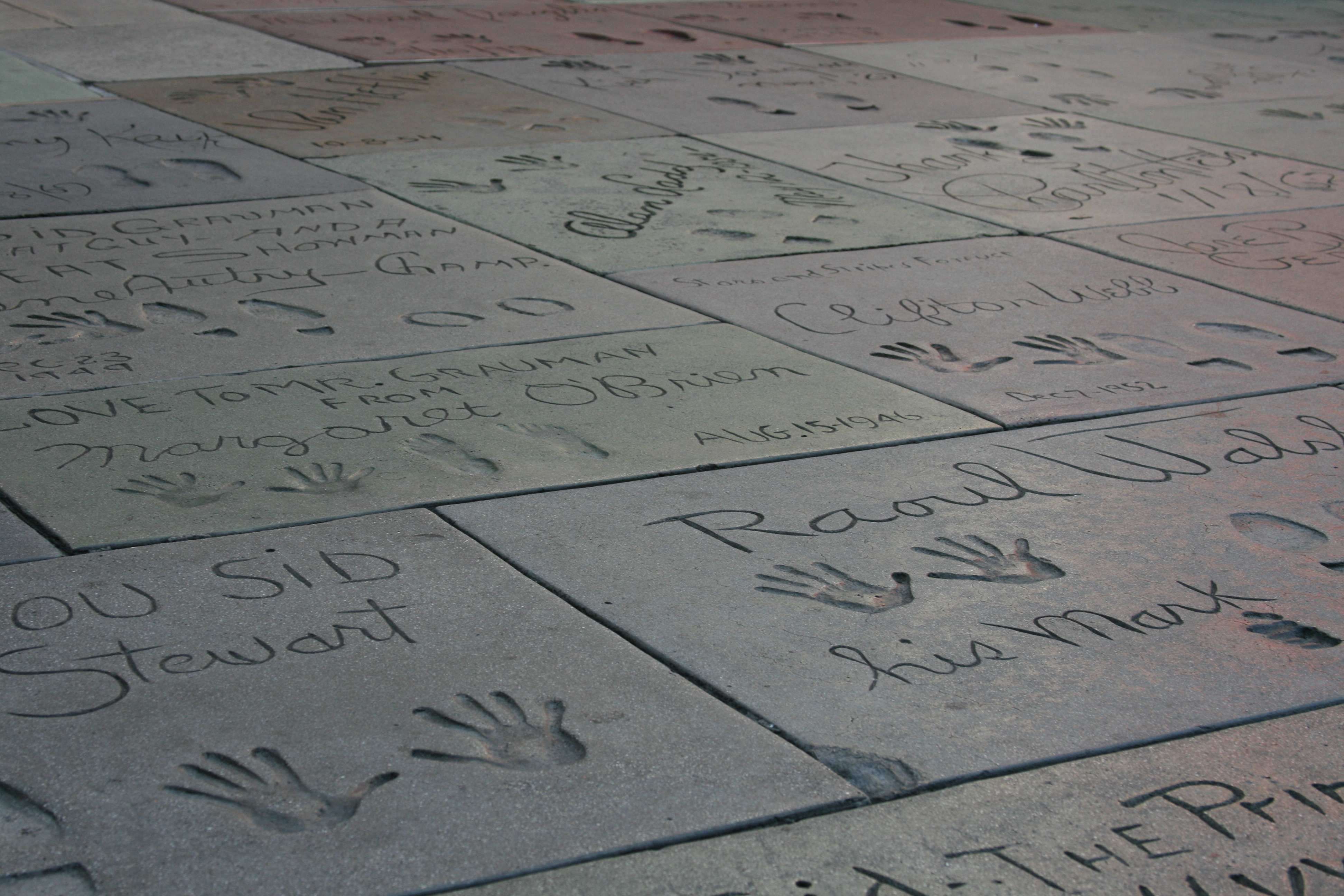 celebrity handprints, footprints, autographs, etc. in front of Grauman's Chinese Theatre in Hollywood